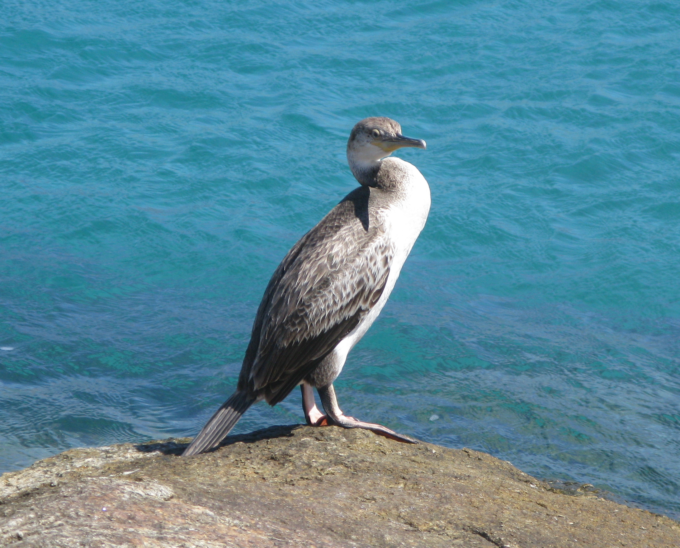 Mediterranean shag (phalacrocorax aristotelis desmarestii) on a rock in Calvi's port.